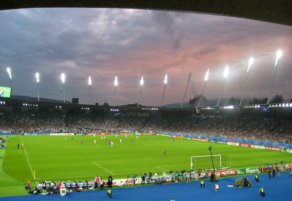 France vs Italy, Euro 2008